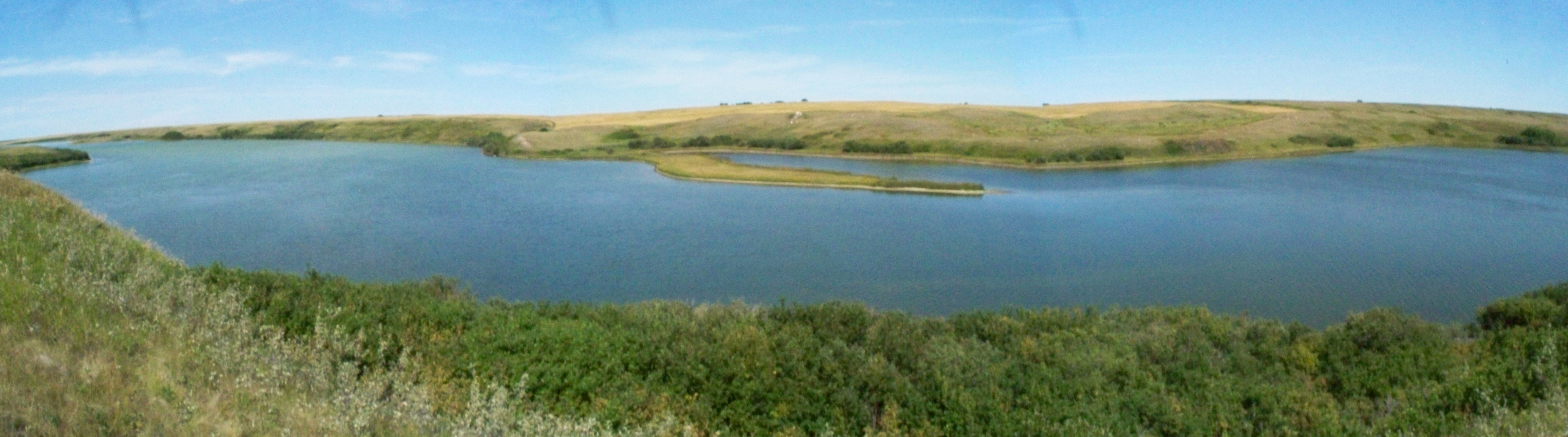 A picture of the east side of Castlewood Lake.